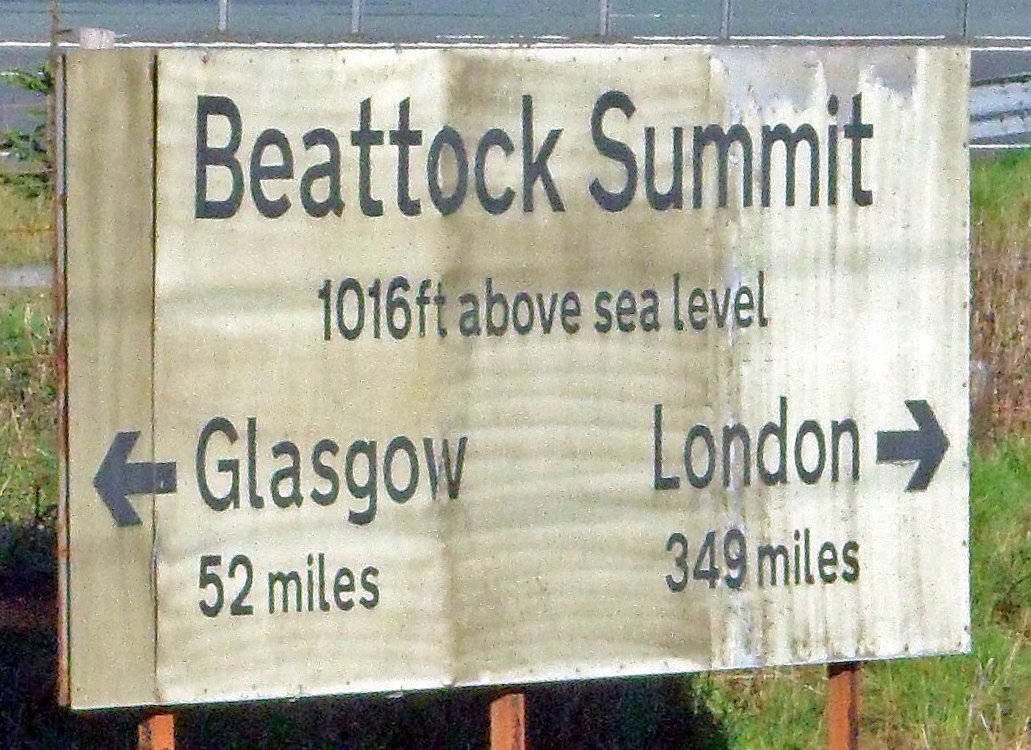 Summit sign board at Beattock Summit in May 2012